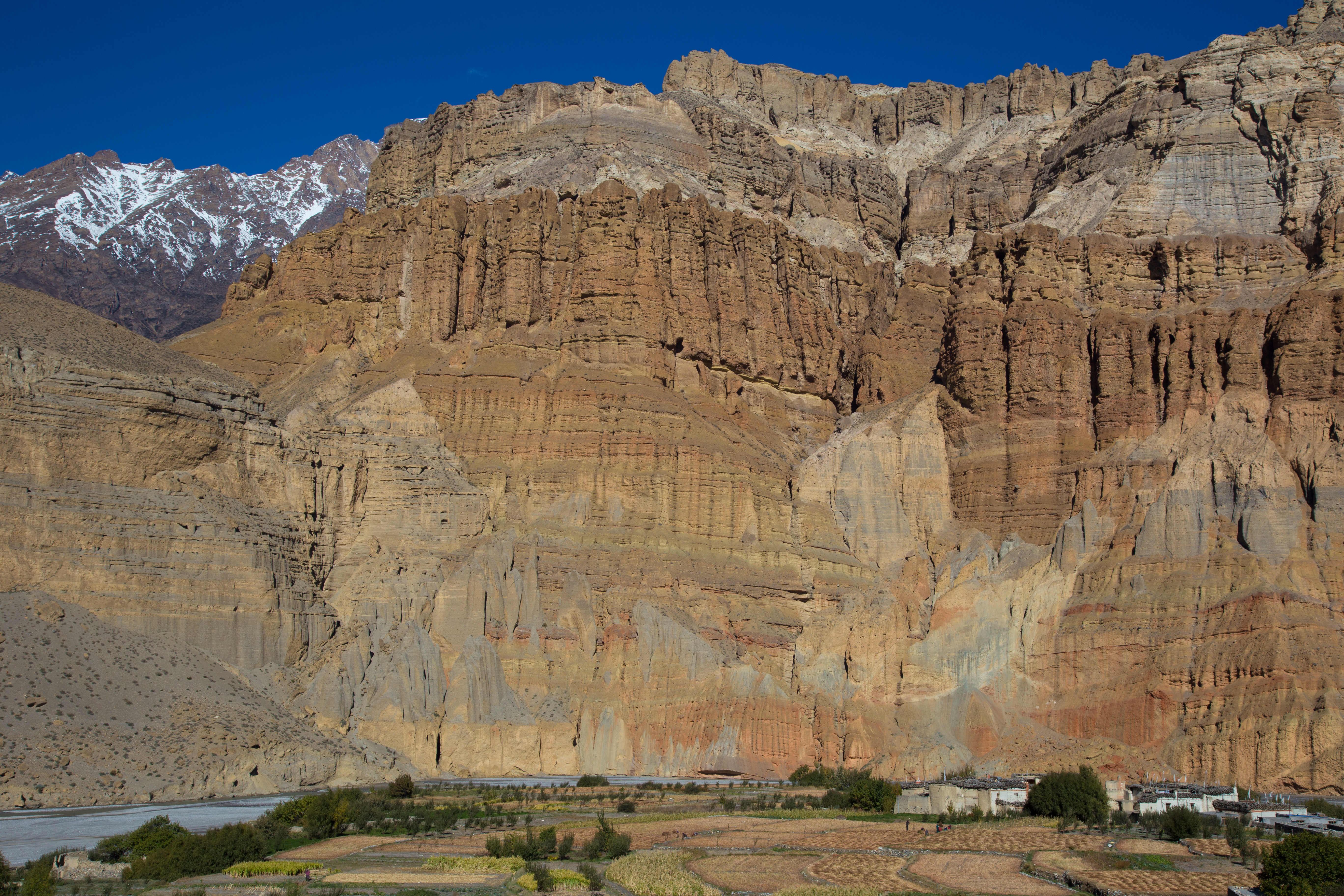 Set deep in the Kali Gandaki canyon, the village of Chhusang is surrounded by gigantic red, orange and silver gray cliffs spotted with cave dwellings. It is an active farming community and a fairly large settlement inhabited mostly by a mixed ethnic group of Gurungs, Thakalis and some families from the land of Lo.